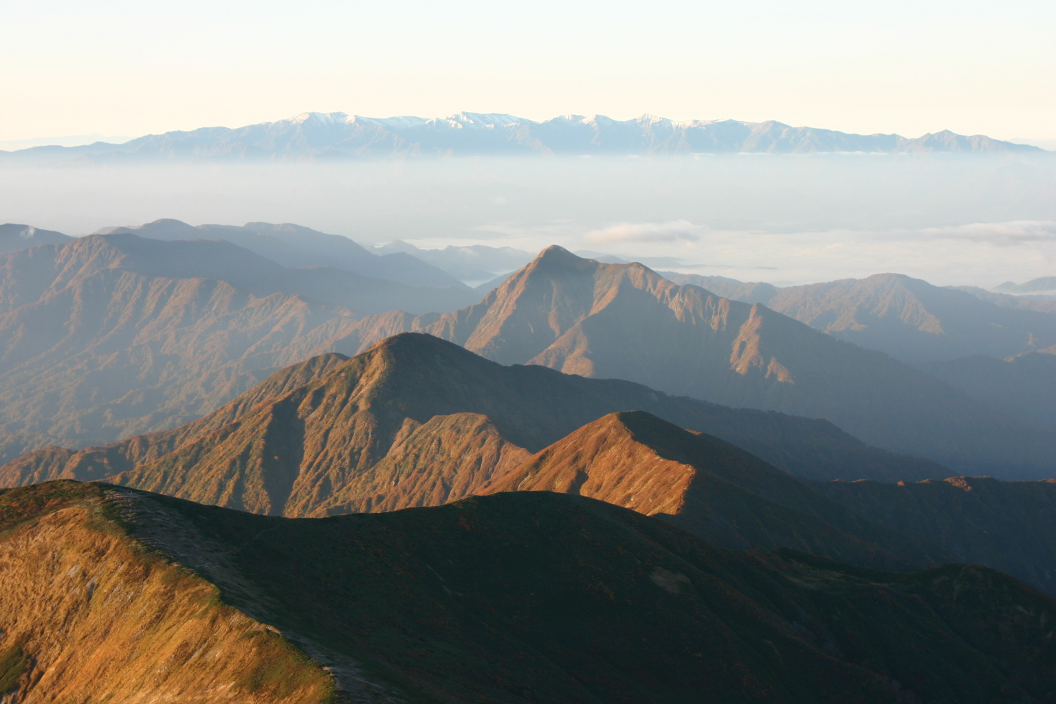 The SSW view from Mount Oasahi in Asahi Mountains in Honshu, Japan. Iide Mountains in the background.